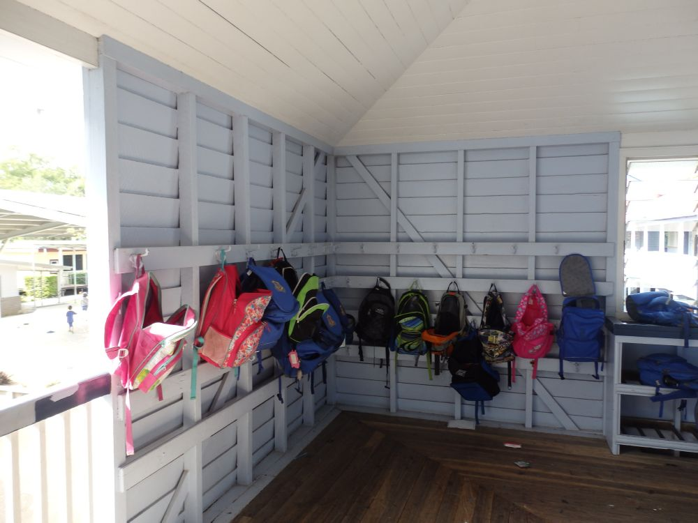 Virginia State School - Block D, Verandah E end, from SW (2015)